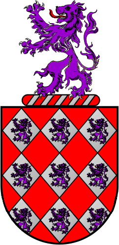 Coat Arms of Brito